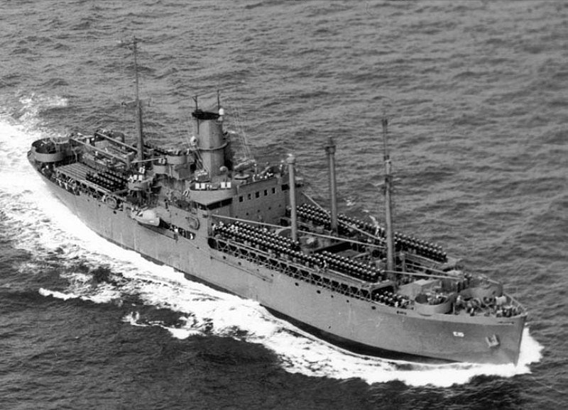 The U.S. Navy ammunition ship USS Sangay (AE-10) underway off the Virginia Capes, 3 May 1943, at the beginning of her first voyage as a mine and ammunition transport, photographed by a blimp based at Weeksville, North Carolina (USA). An estimated 500 Mk.6 moored contact mines are included in the cargo, even though all the deck mine rail space is not occupied. The antenna for the SU surface search radar is installed at the forward edge of the funnel. Sangay was specifically configured to carry mines.